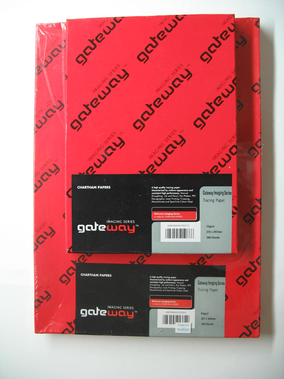 Tracing Paper in carton box, wrapped by POF (polyolefin shrink film)